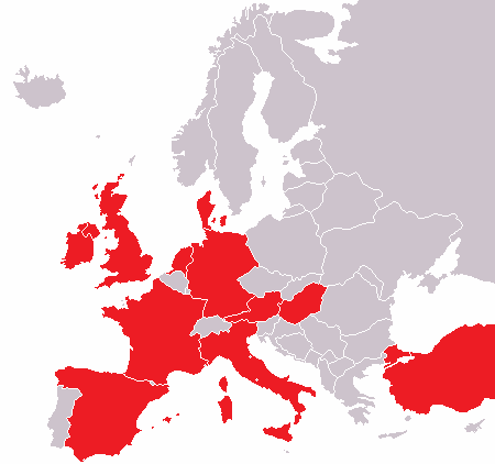 Haribo factories in Europe